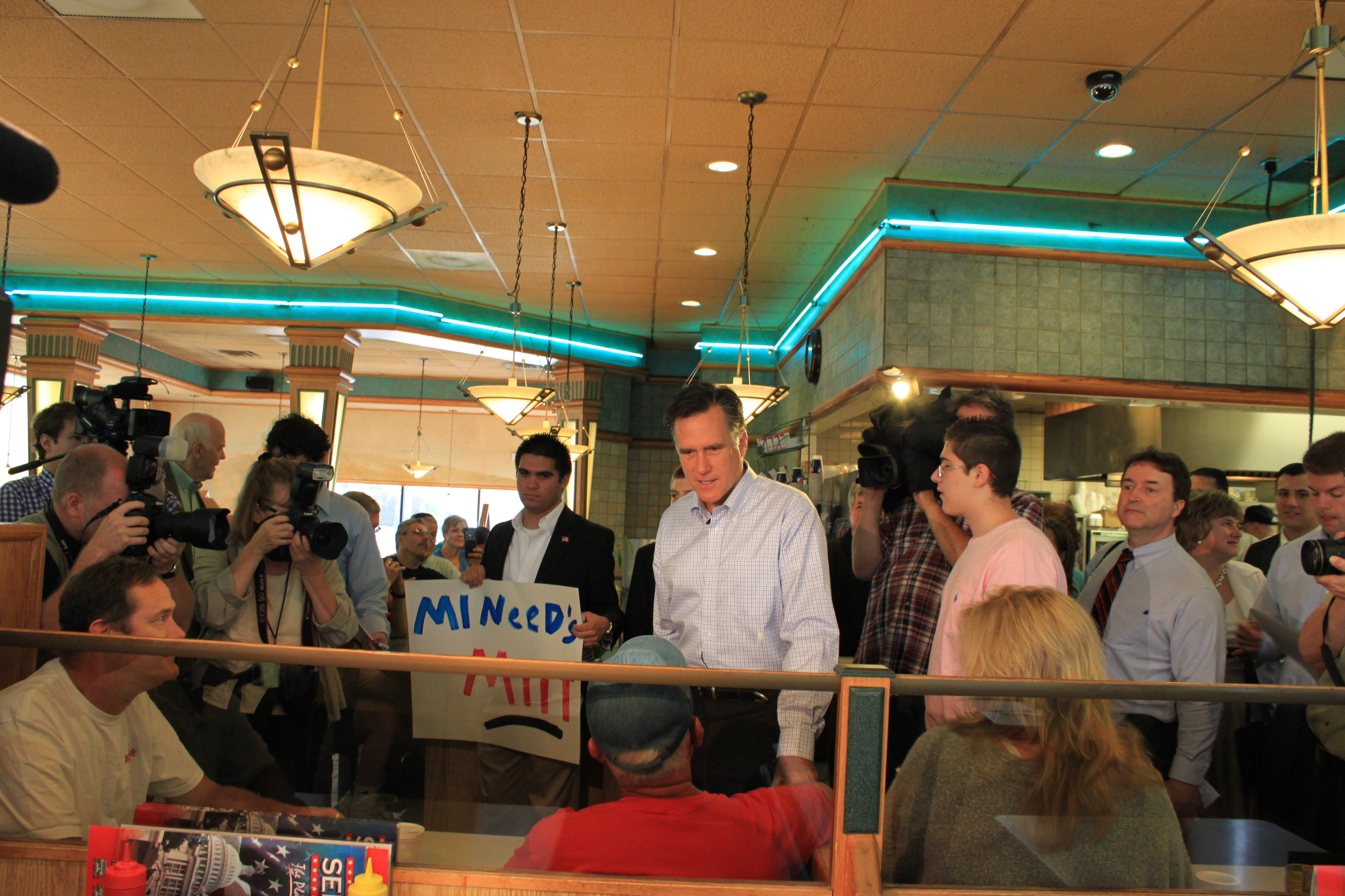 Presidential candidate Mitt Romney talks with patrons at the Senate Coney Island Restaurant, 34359 Plymouth Road, Livonia, Michigan, June 9, 2011